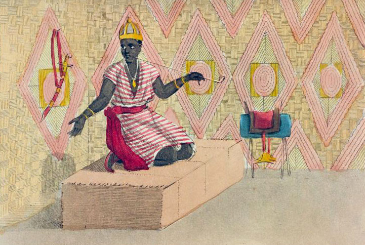 Apartment of the King of Salum